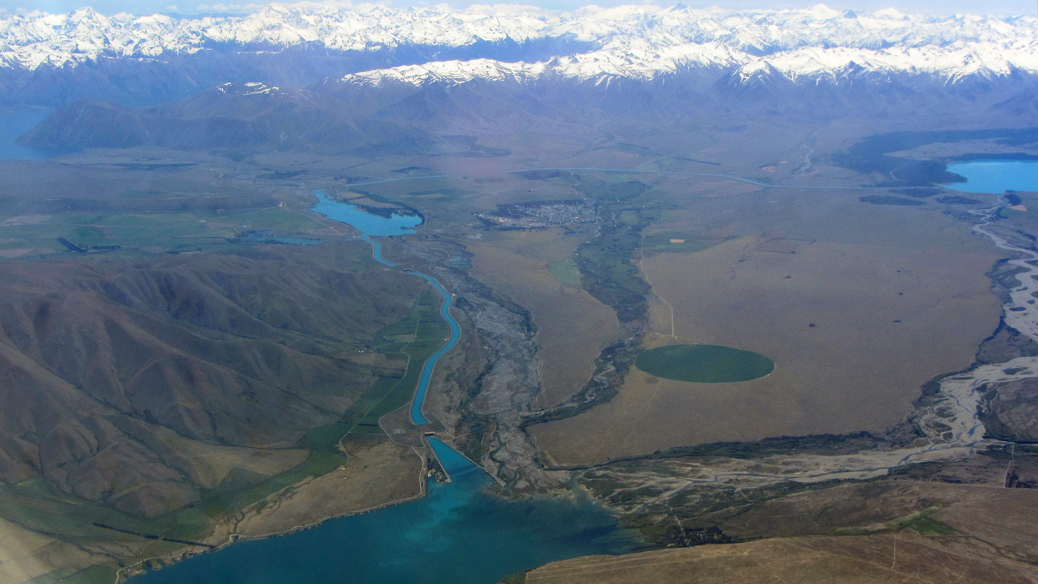 Flight from Rotorua to Queenstown. Over South Island, New Zealand